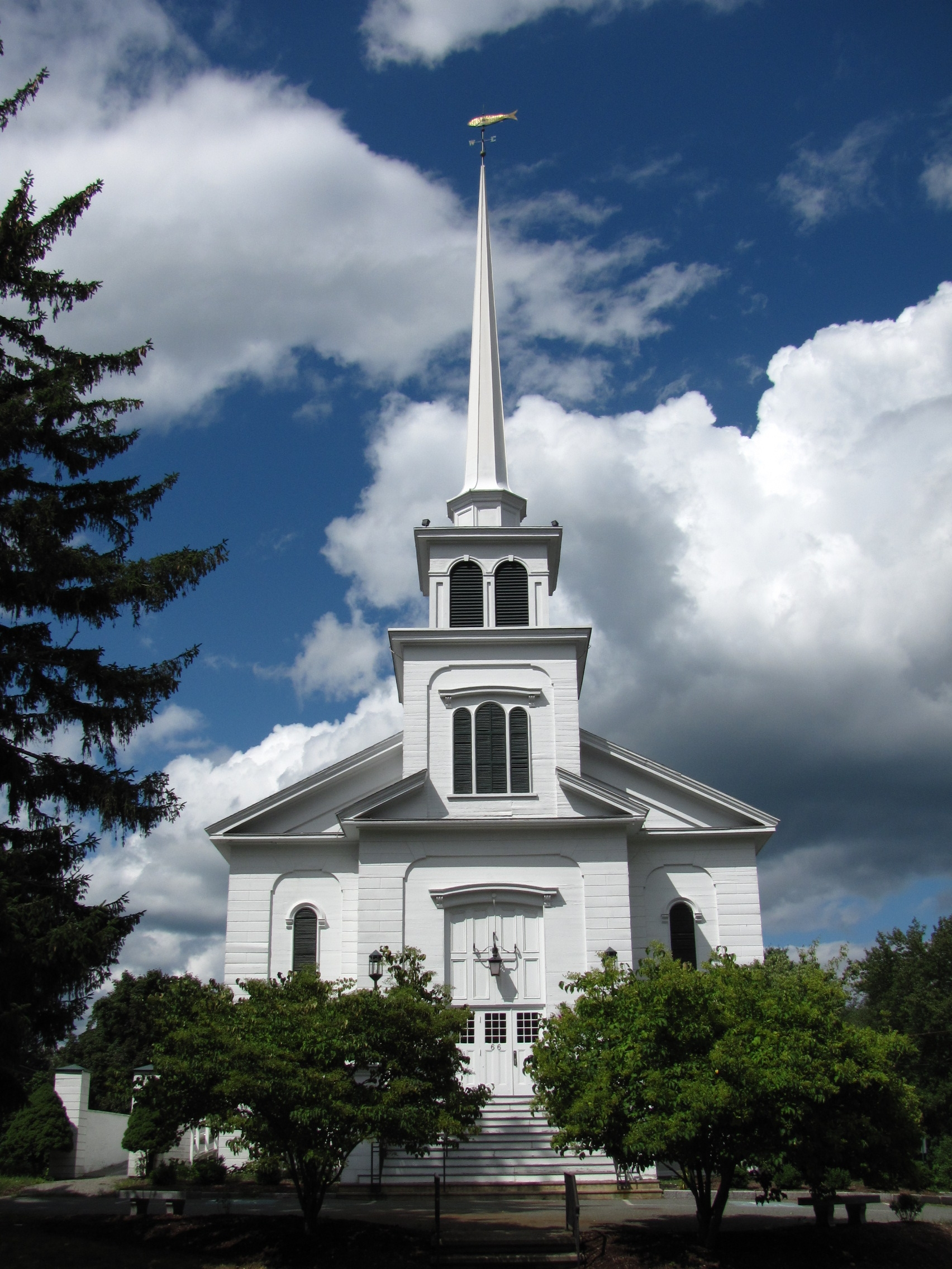 Middleton Congregational Church, 66 Maple Street, Middleton Massachusetts - Built in 1859